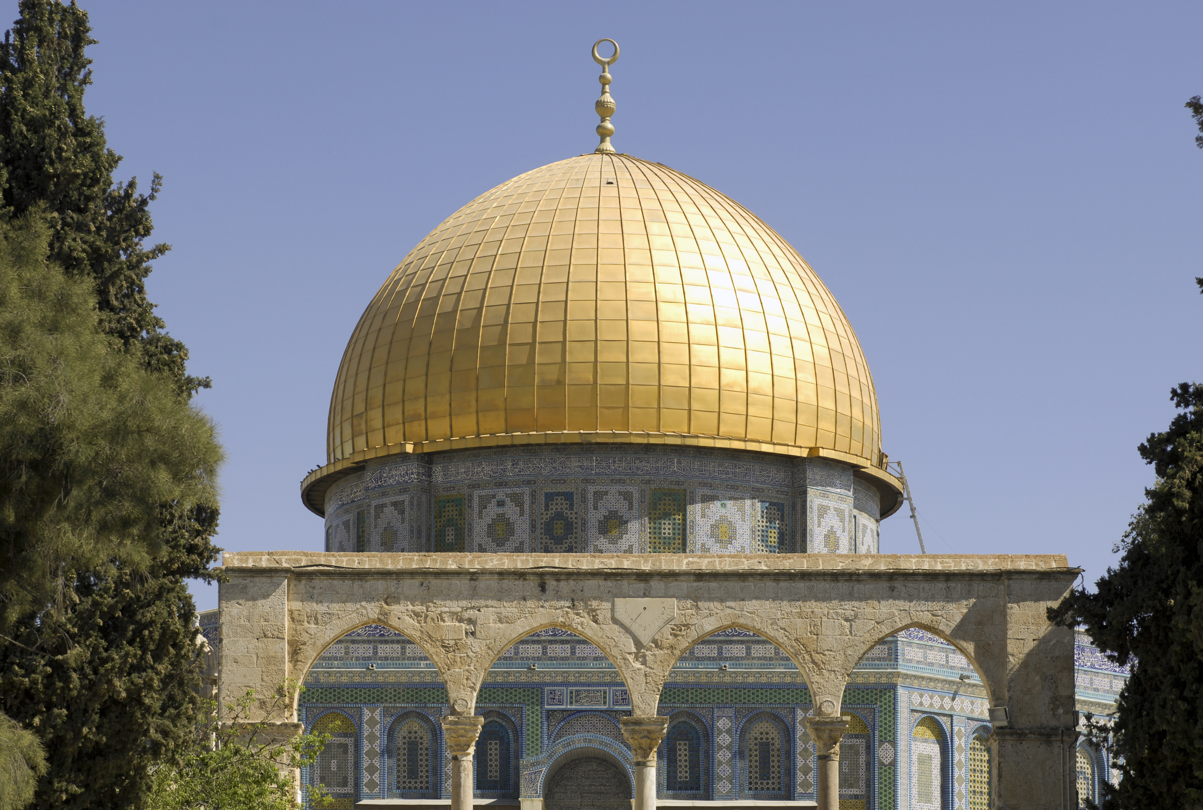 The Dome of the Rock (Arabic: مسجد قبة الصخرة, Hebrew: כיפת הסלע)